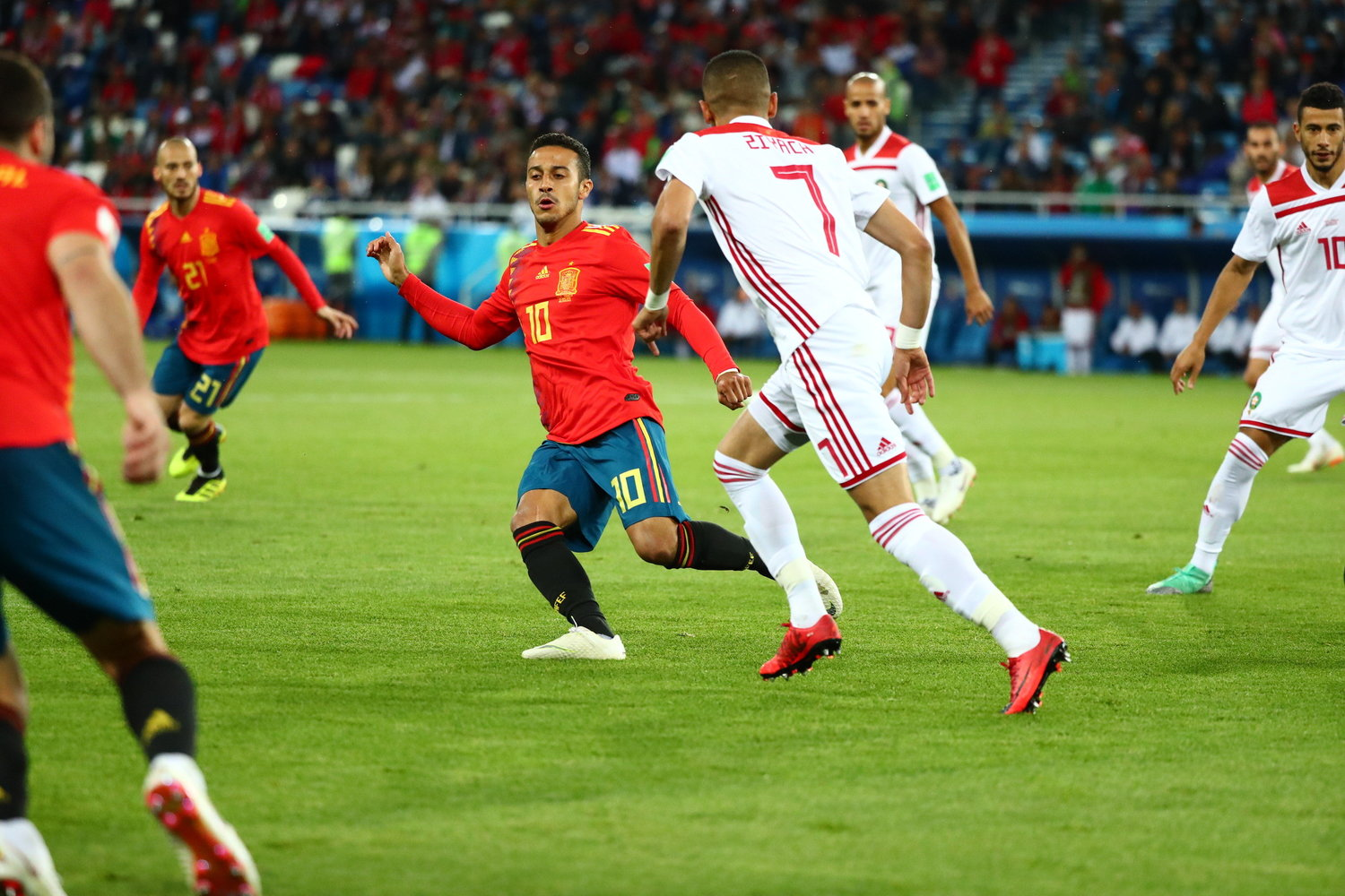 Spain-Morocco match, Group B, 2018 FIFA World Cup